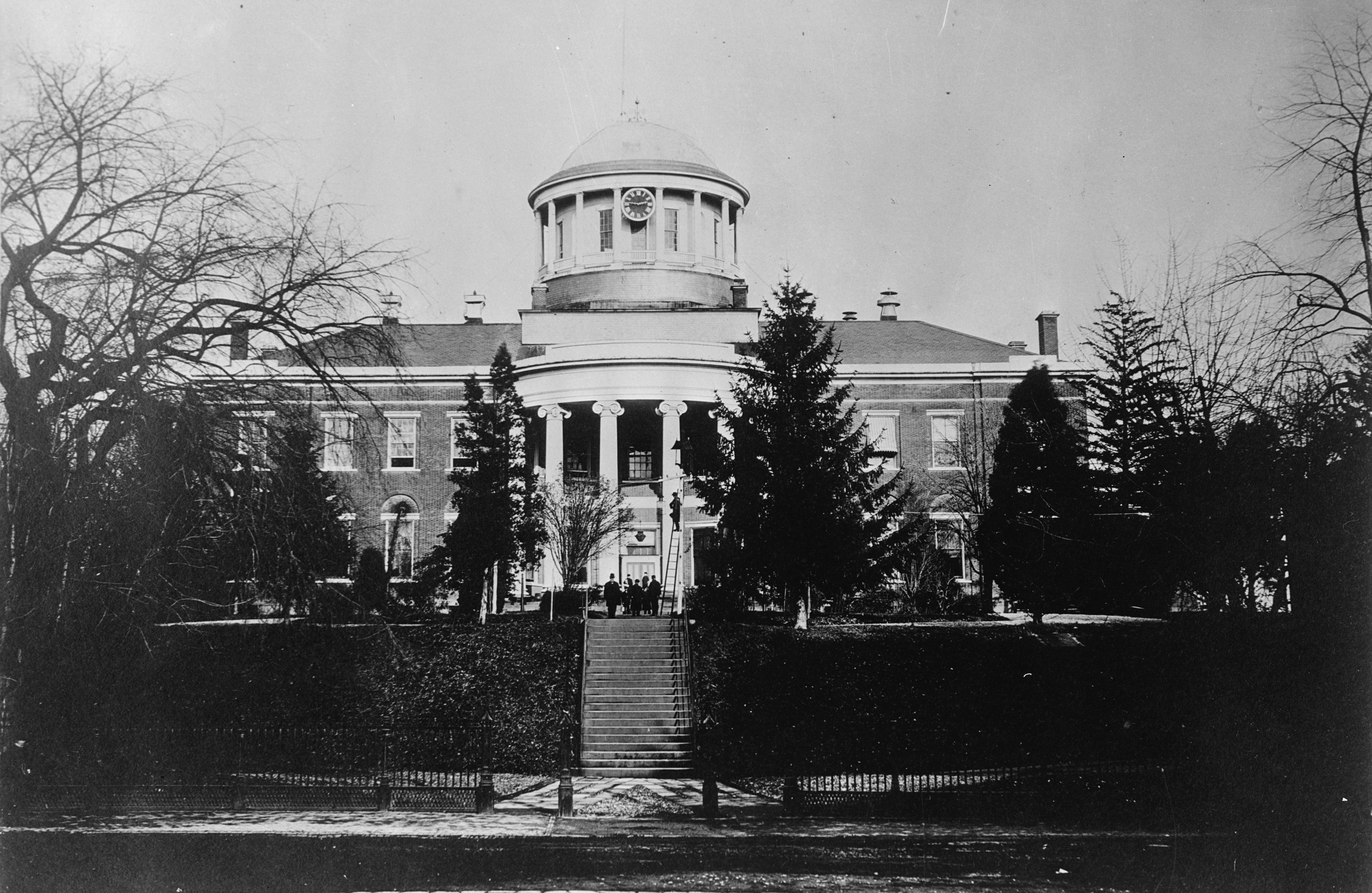 The Hills Capitol, one of the predecessors to the current Pennsylvania State Capitol, in Harrisburg, Pennsylvania. Original number was "HABS PA,22-HARBU-1", original caption was "Copy of an old photo in Dauphin County Historical Society; View from the west, main building"